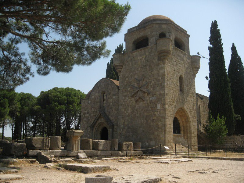 The Monastery of Filerimos in Rhodes Greece